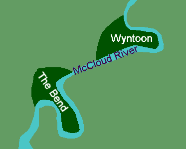 A rough sketch of the McCloud River section with the two horseshoe bends that make up modern-day Wyntoon. Shown in the sketch is the 1900s position of The Bend owned by Charles Stetson Wheeler and the upstream bend holding Phoebe Apperson Hearst's Wyntoon. In 1929, William Randolph Hearst bought Wyntoon and in 1934 he bought Wheeler Ranch including The Bend. Today, the Hearst Corporation owns the land.